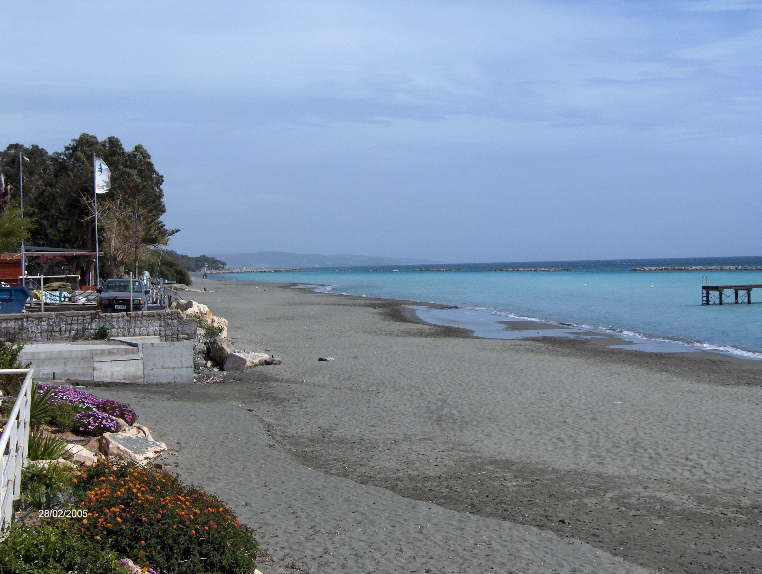 Limassol Tourist Area Beach in March